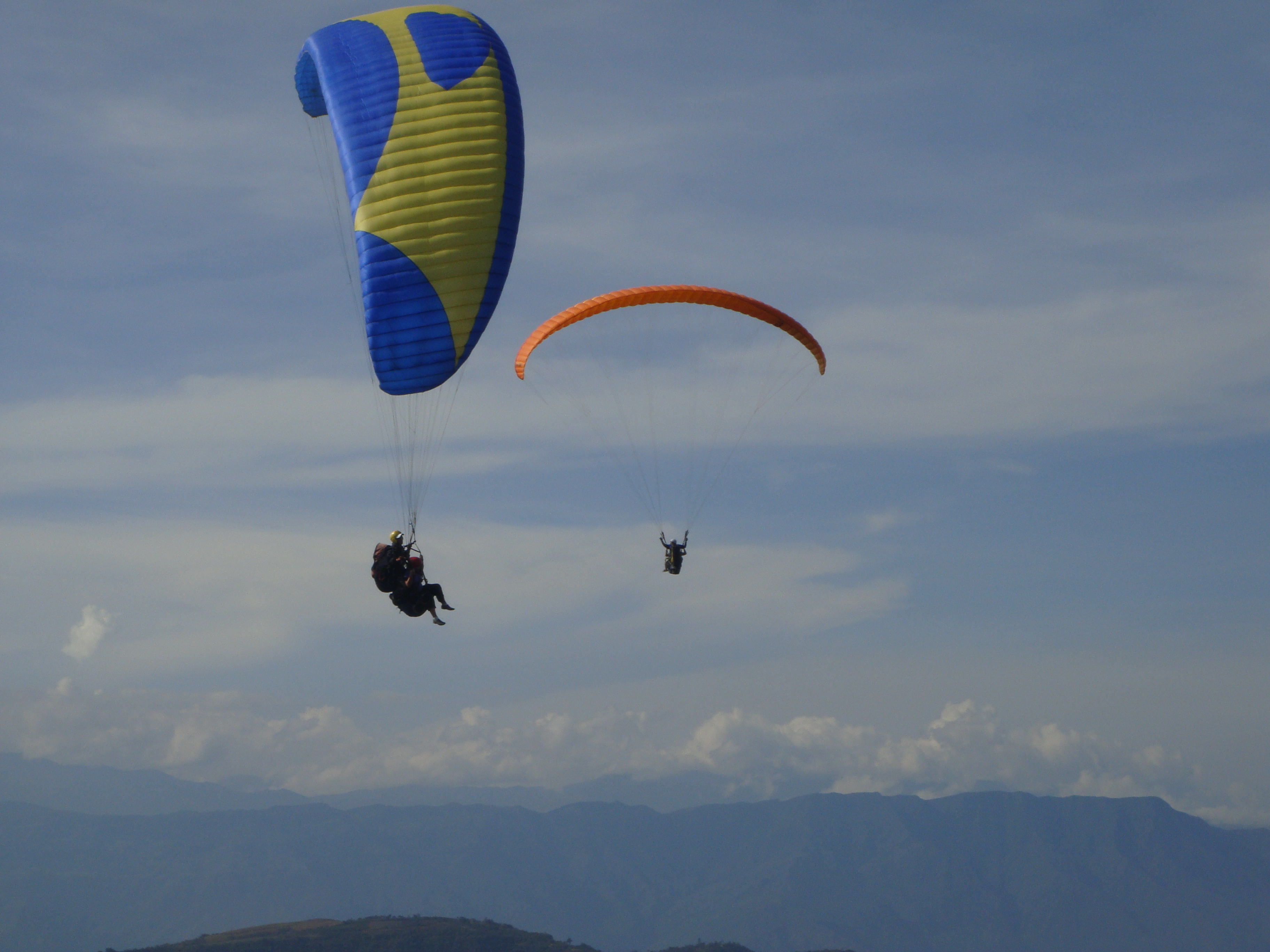 Parapente San Gil